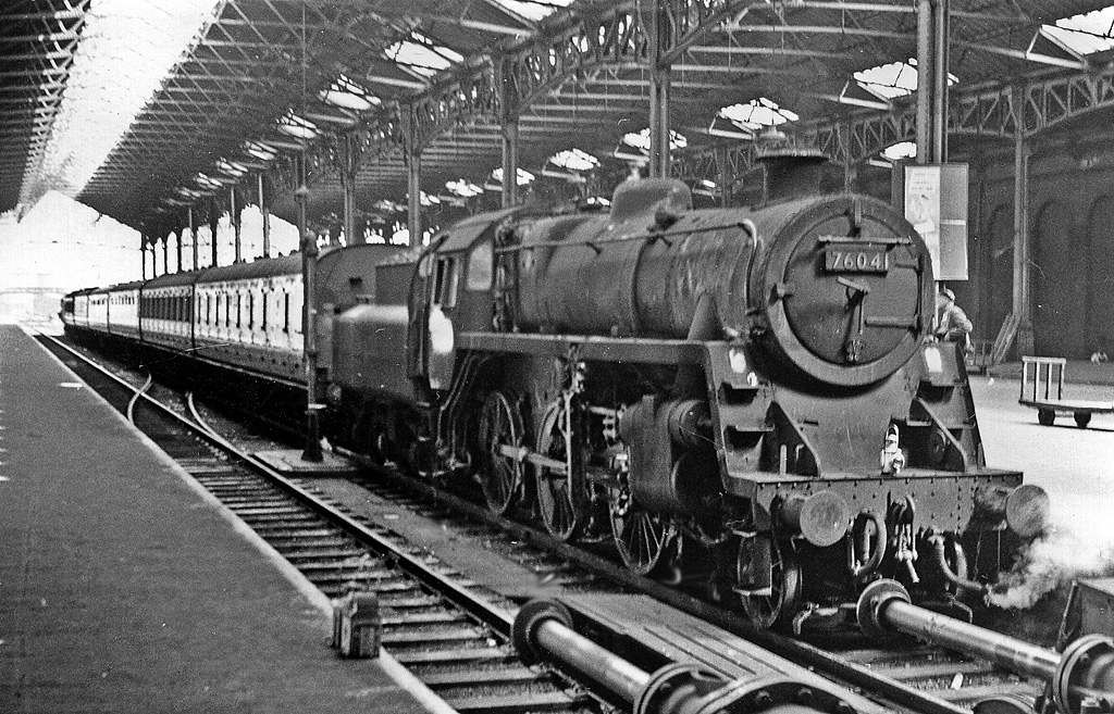 Up local train at Marylebone Station. View northward, out of the Station towards the 'Metroland' suburbs, Leicester Central, Nottingham Victoria and Sheffield Victoria - ex-Great Central 'London Extension' main line. The Station was by 1961 very much in decline: it had been taken over by the London Midland Region in 1958 and lost any importance as the terminus of a provincial main line. The train is the 07.40 stopping train from Woodford Halse, headed by BR Standard 4MT 2-6-0 No. 76041.